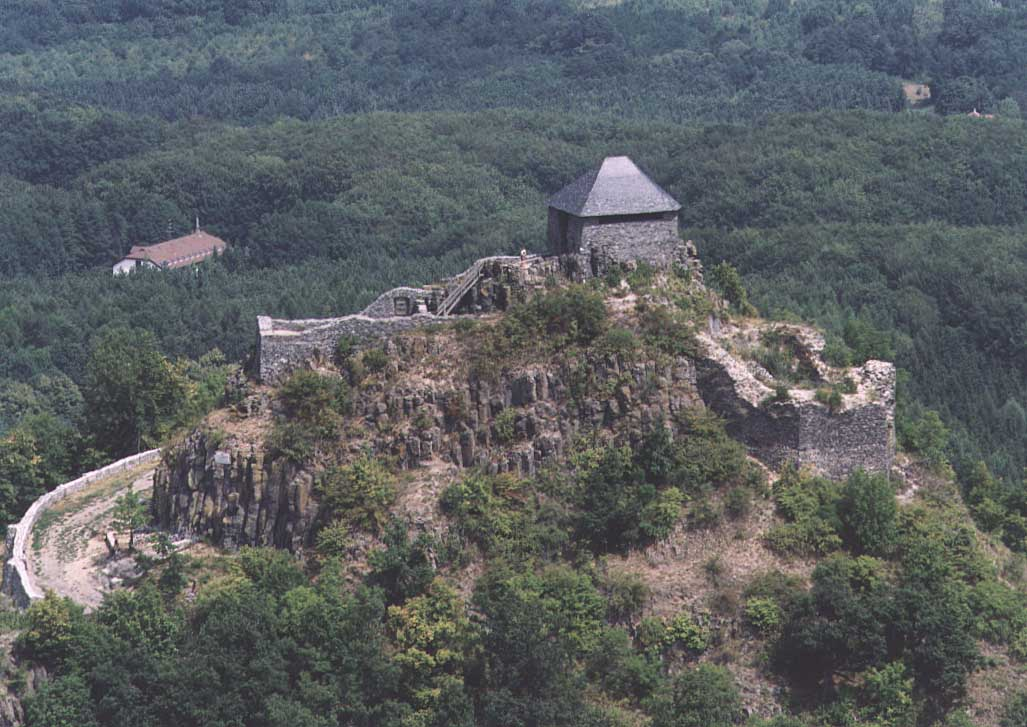 Castle of Salgó - Salgótarján - Hungary - Europe